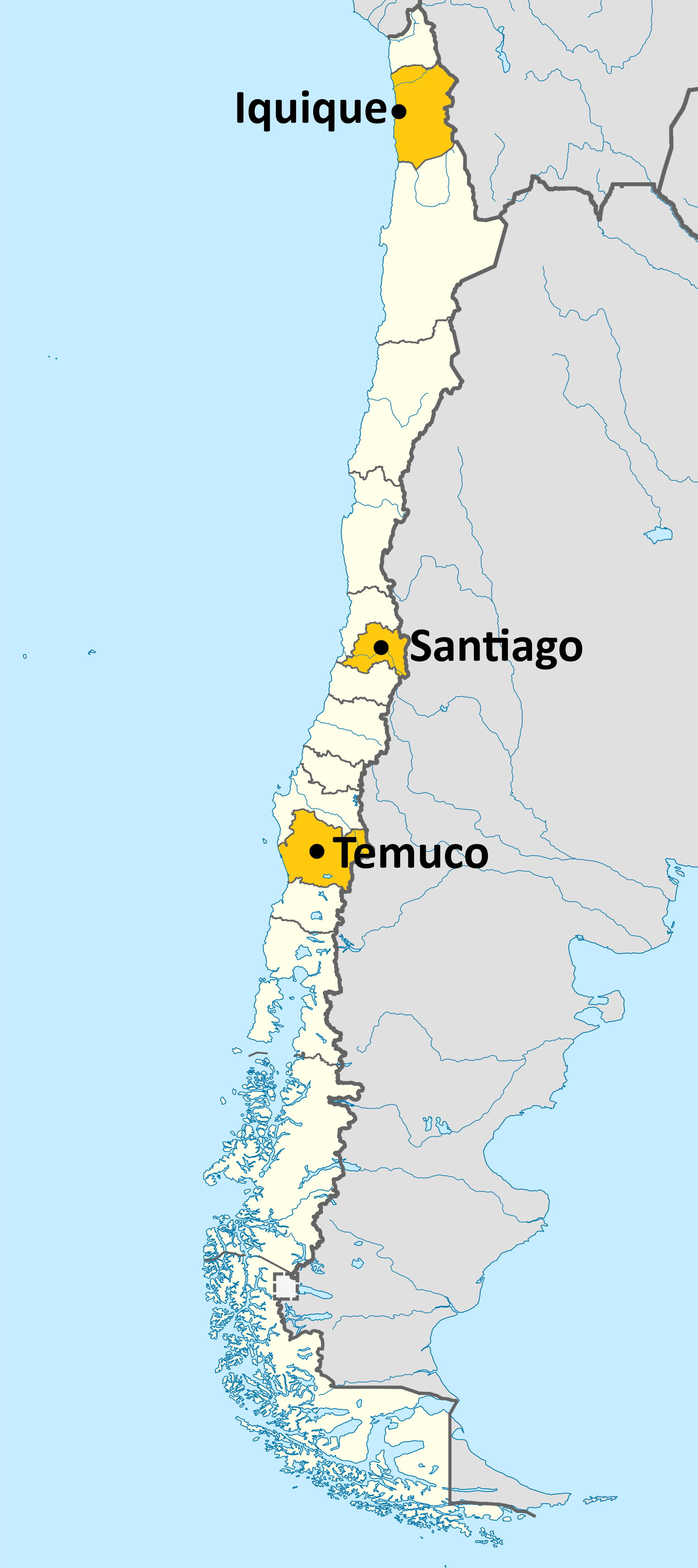 Lugares de visita de Francisco a Chile en enero de 2018